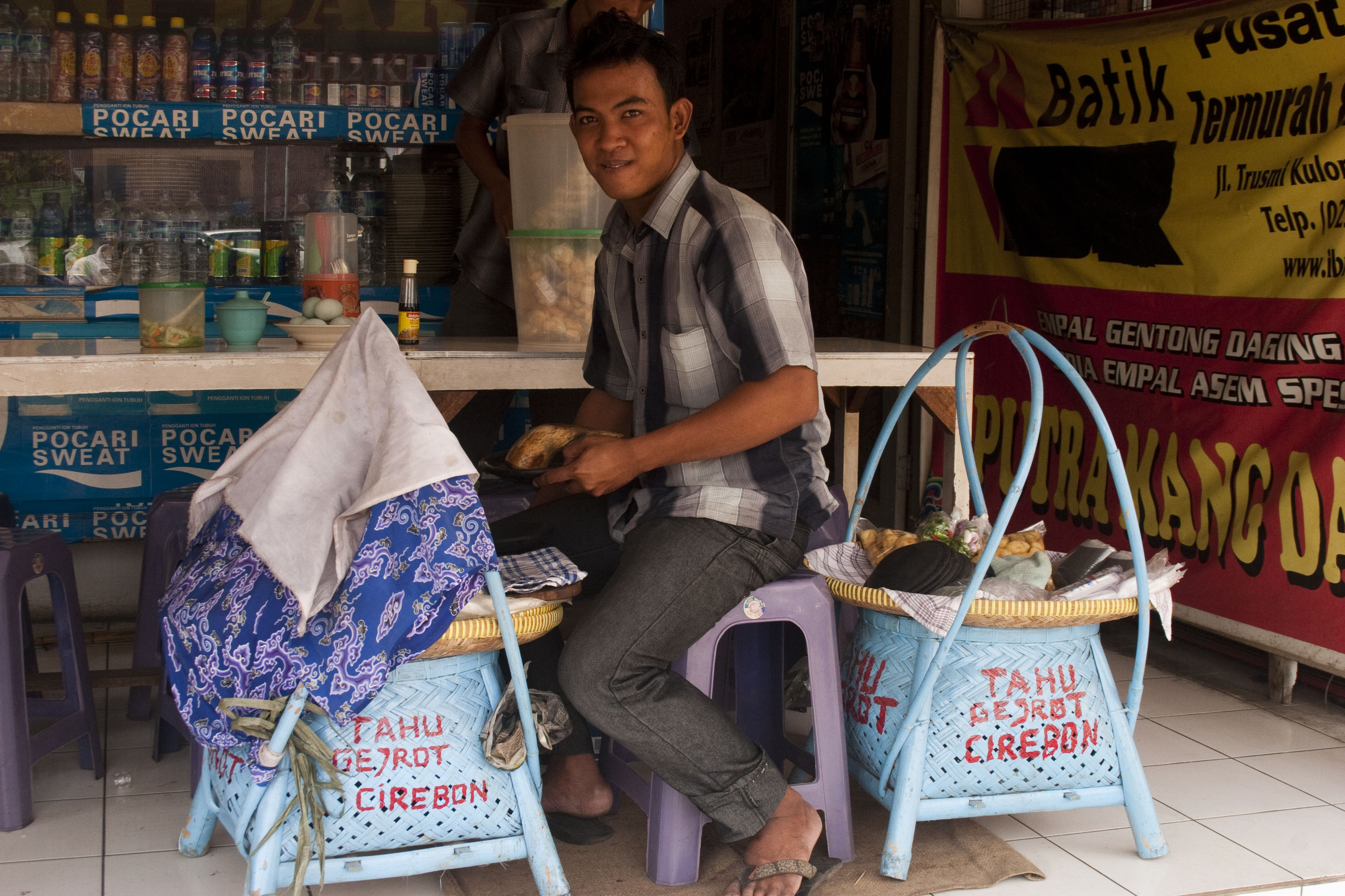 Tahu gejrot vendor with his carrying pole. Today, 'tahu gejrot' which once was street food are now available in restaurants or food courts at malls. It provides them with better access to running water which increase food hygiene significantly.